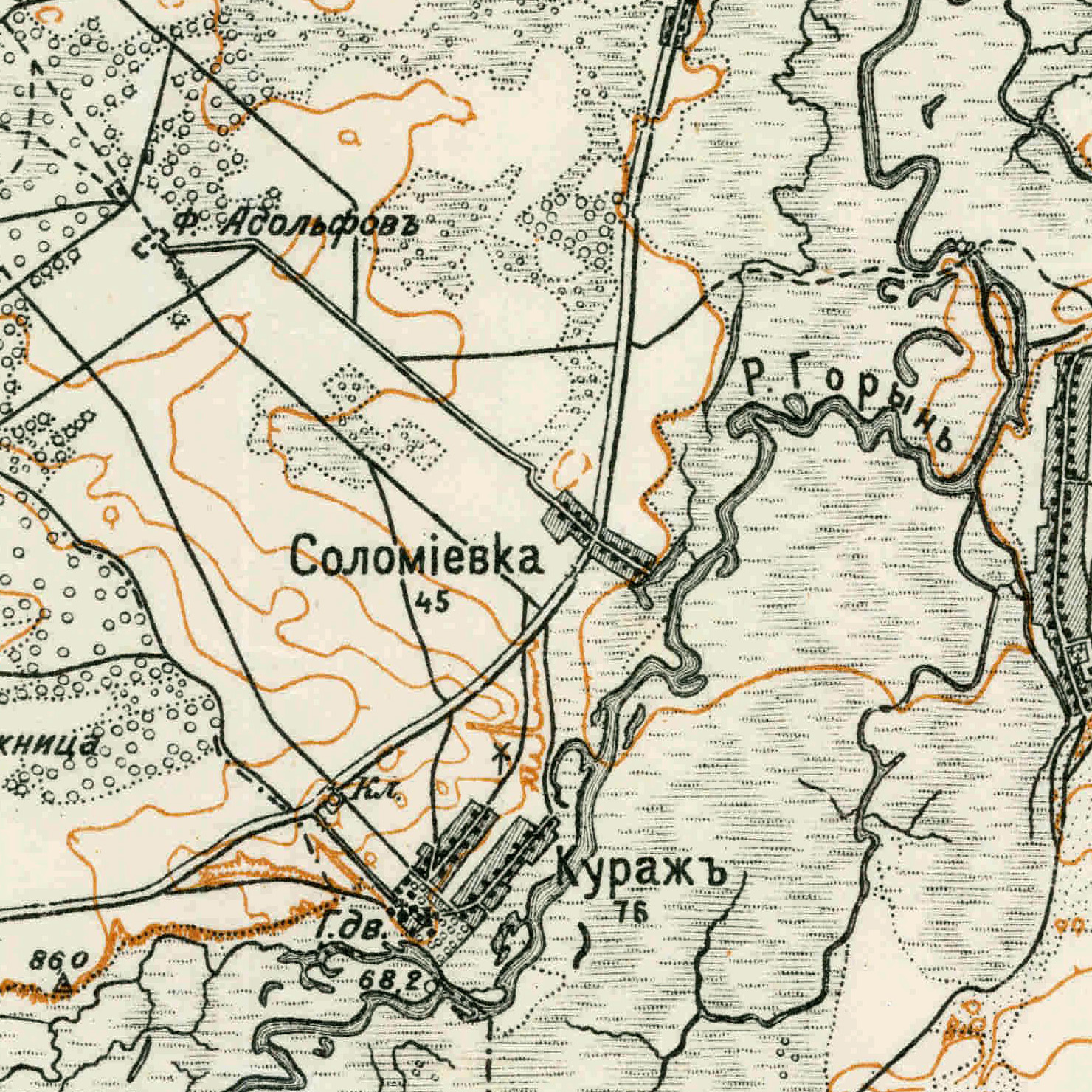 Kurash on the map "Новая Топографическая Карта Западной России", XXVI 21, 1915.